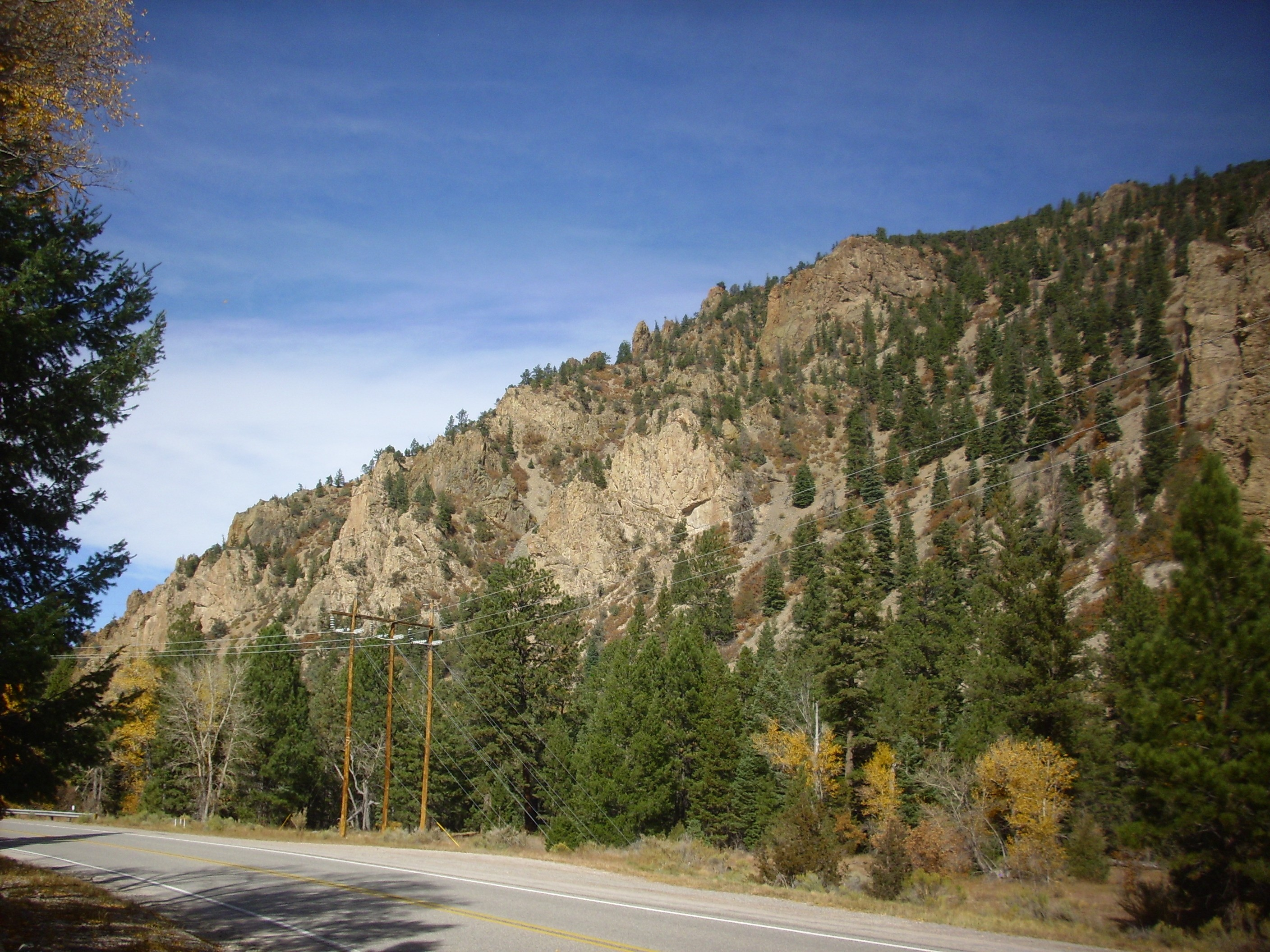 This image shows part of the ring dike of the heavily eroded Questa caldera, exposed along Highway 38 in the Red River canyon east of Questa, New Mexico, USA.